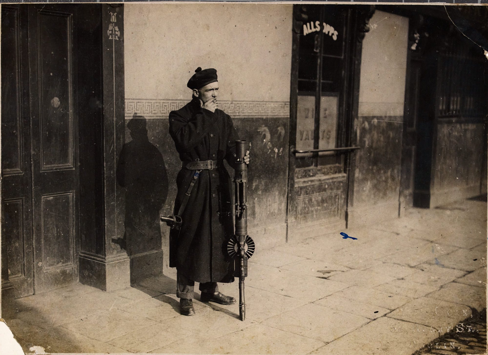 "A Black and Tan on duty in Dublin..." ... smoking and posing with a Lewis gun. (Understood to be taken outside Hyne's Pub, on the corner of Gloucester Place and Railway Street, following the shooting of a Corporal Ryan [1]) Date: February 1921 NLI Ref.: HOGW 121